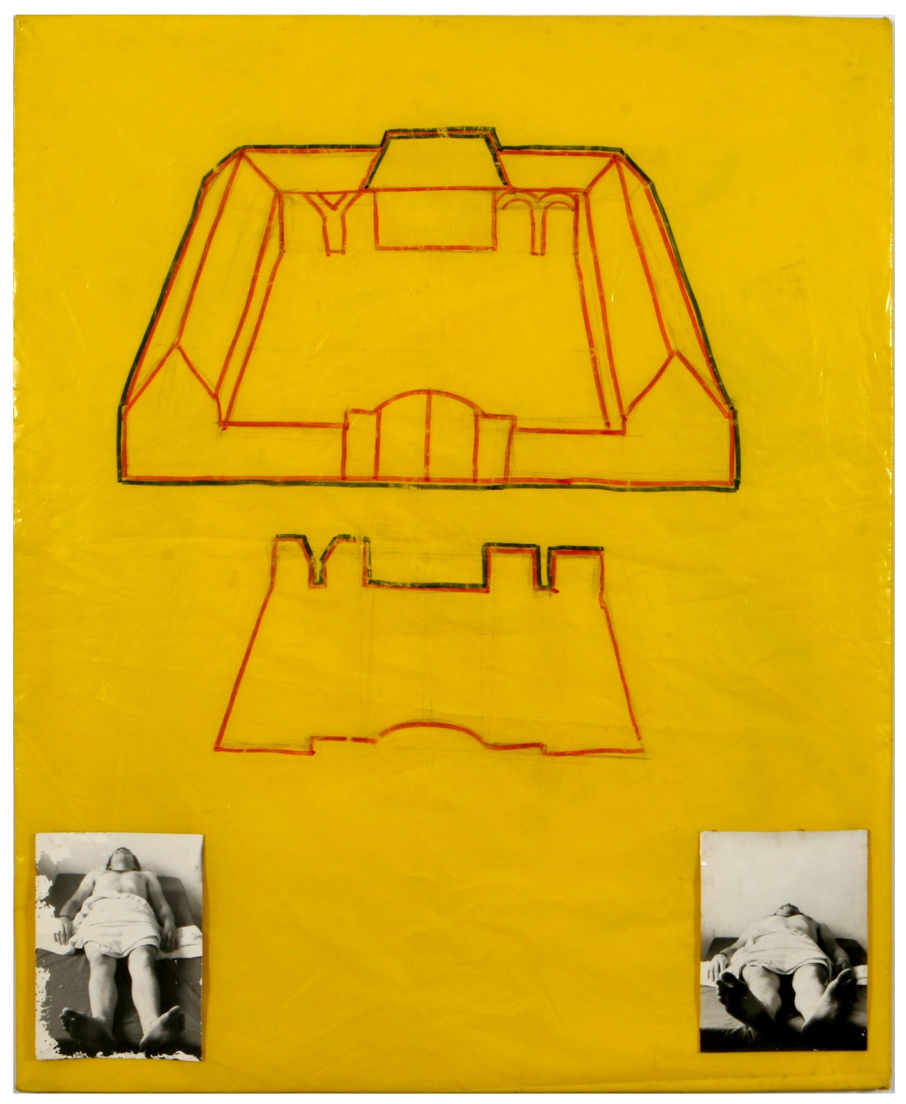 photographs and markers on vinyl